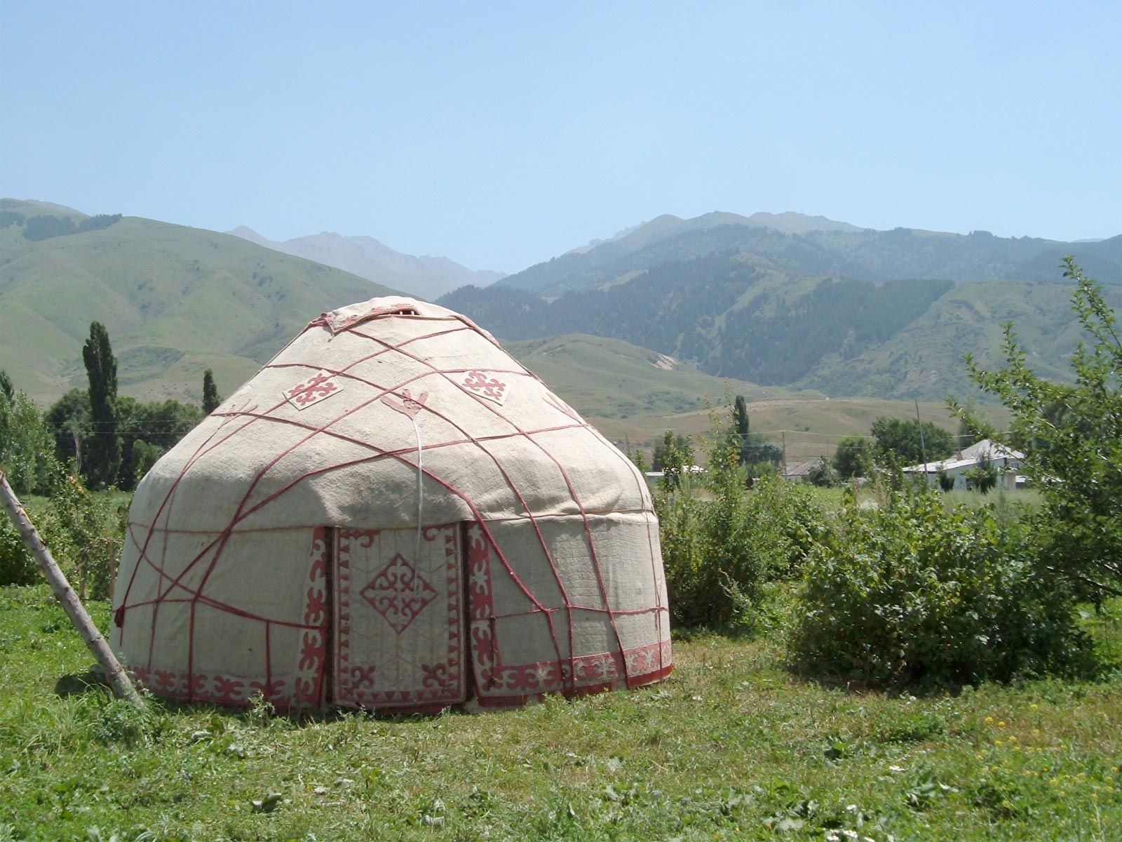 A yurt in the Chon-Kemin valley of Kyrgyzstan.